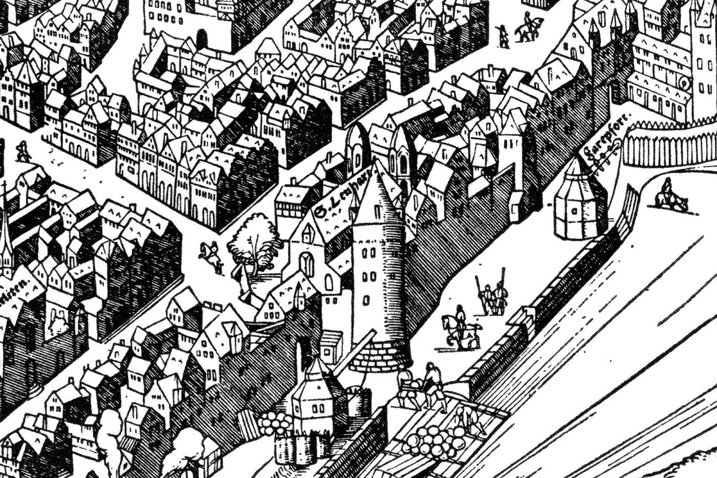 Frankfurt on the Main: Detail from the siege plan of 1552 with the Leonhardskirche (Leonard's church) and the Leonhardsturm (Leonard's tower)